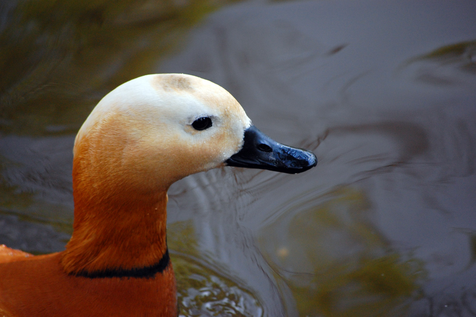 A Ruddy Shelduck